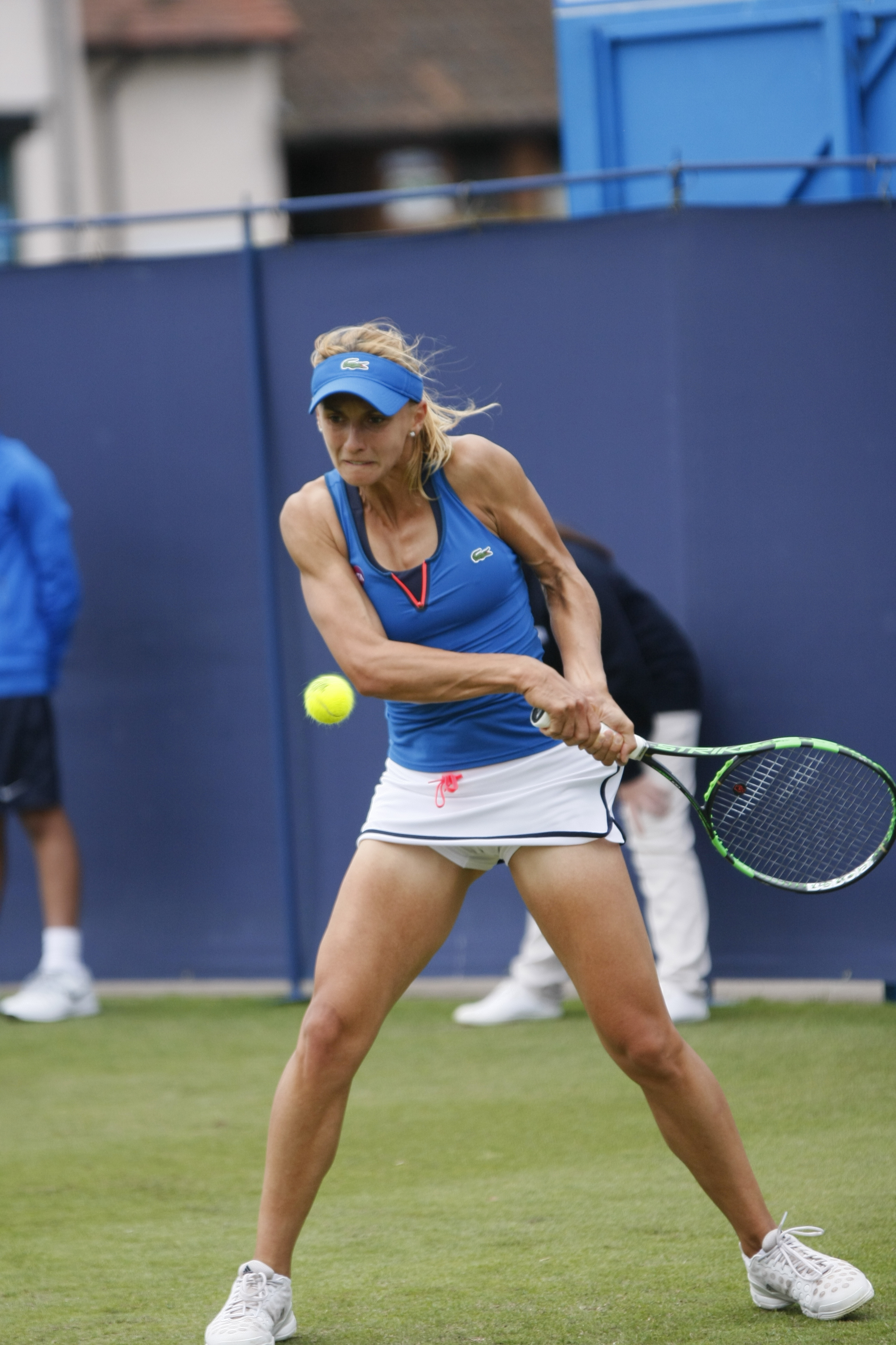 Aegon International Tennis, Devonshire Park, Eastbourne June 2015